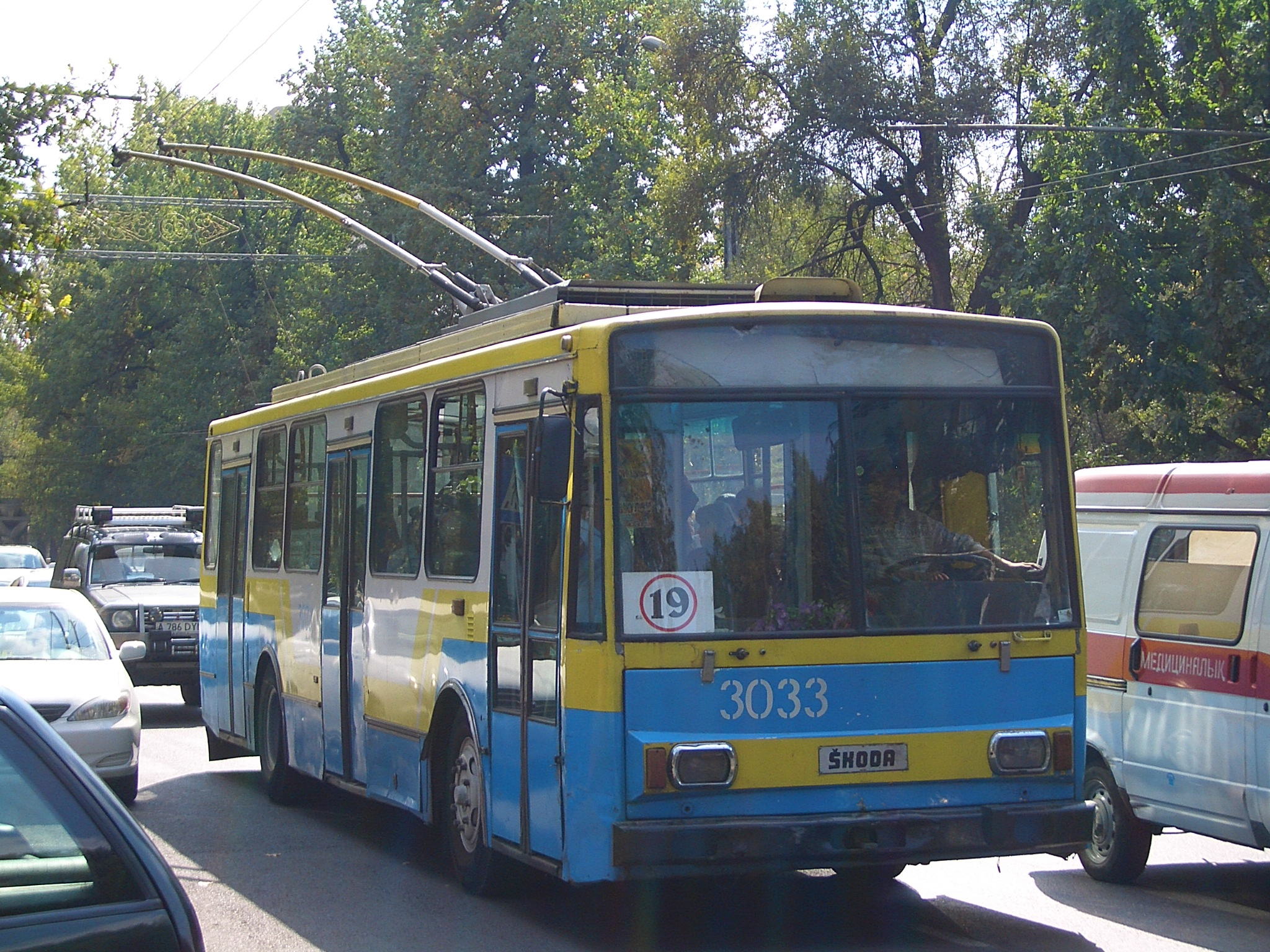 A trolley bus in Almaty